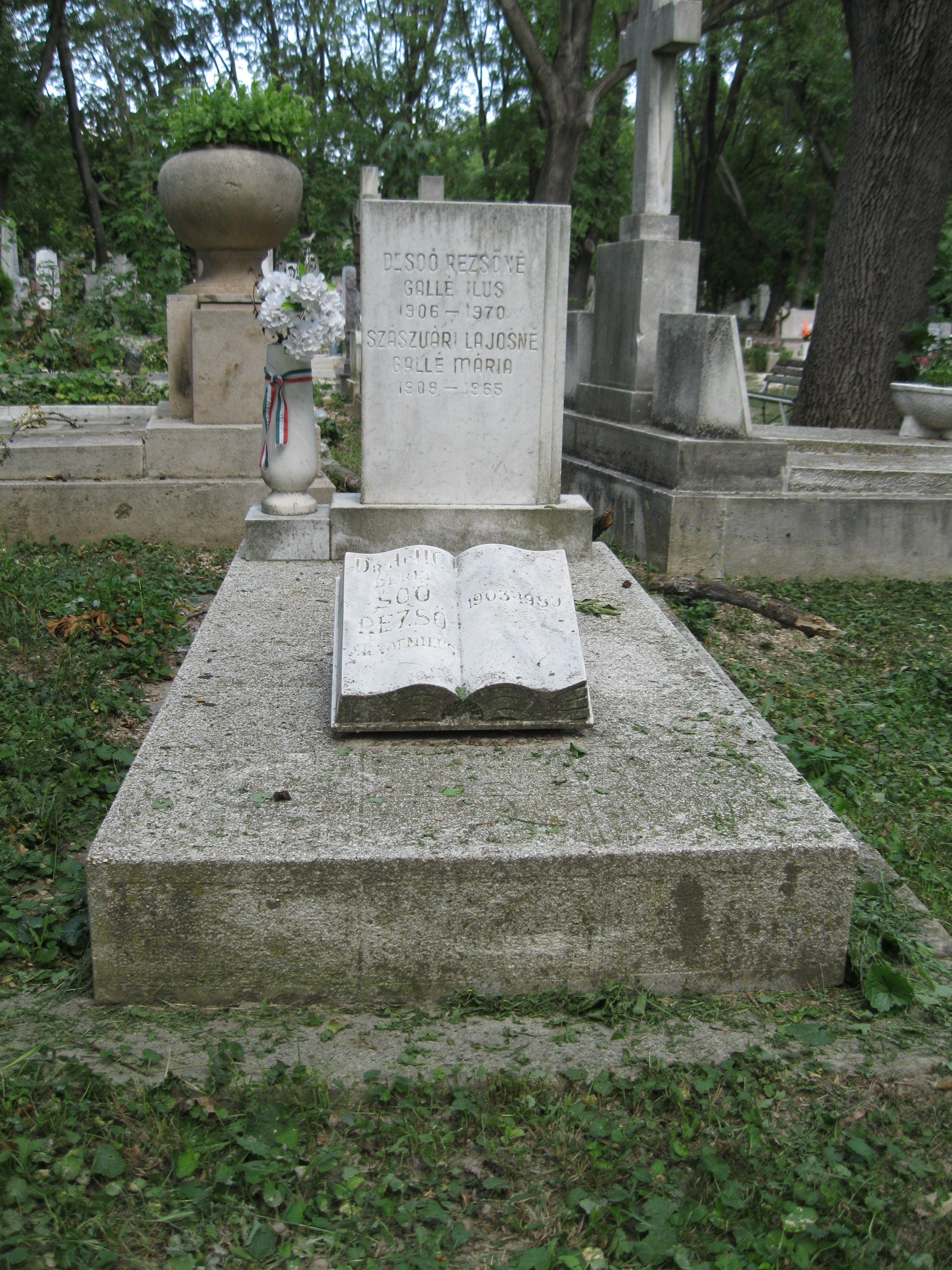 Tomb of Rezső Soó and his family in Farkasréti Cemetery [7/6-1-65]